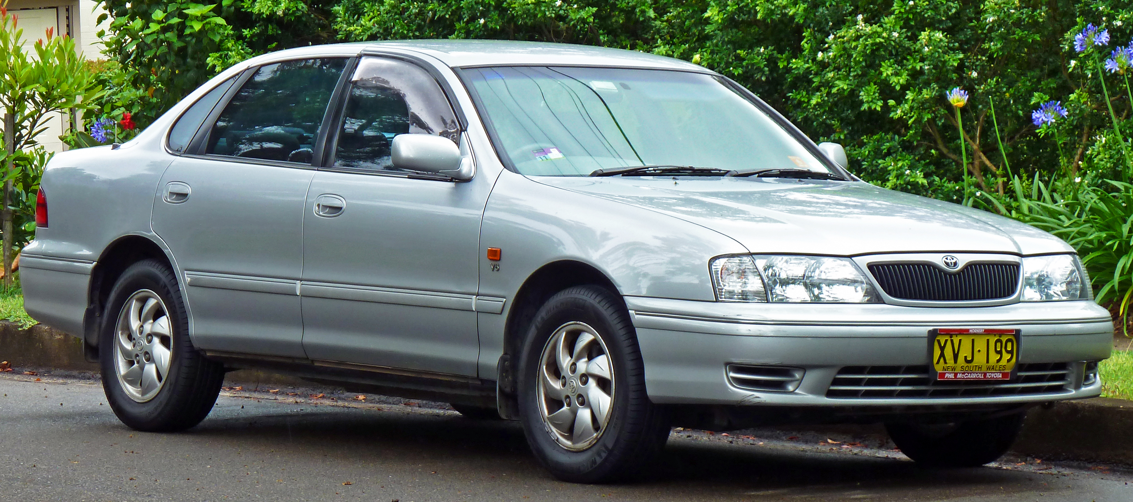 2002 Toyota Avalon (MCX10R Mark II) CSX sedan. Photographed in Lindfield, New South Wales, Australia.